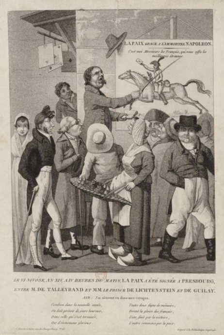 Contemporary French print heralding the Peace of Pressburg signed 26 December 1805.